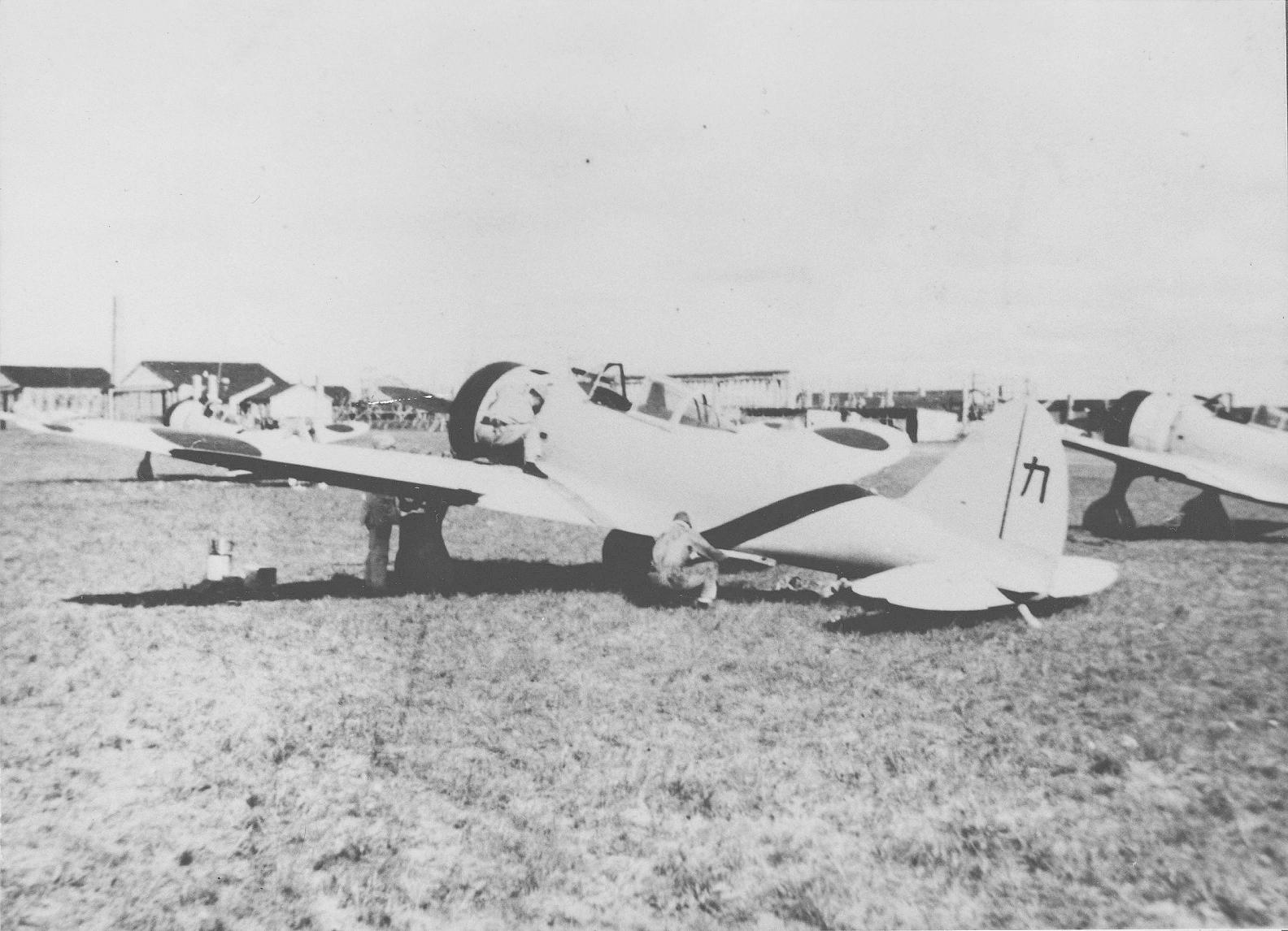 Nakajima Ki-27 in 1939 by Iori Sasaki